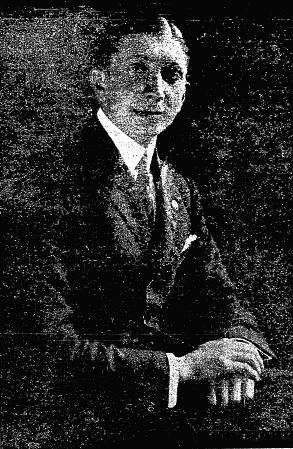 Polish associate footballer Artur Marczewski Polski piłkarz Artur Marczewski